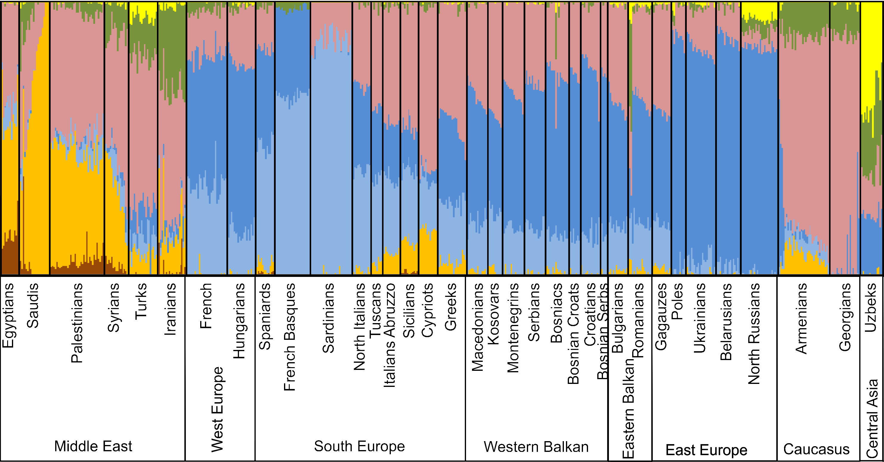 ADMIXTURE analysis of autosomal SNPs of the Balkan region in a global context on the resolution level of 7 assumed ancestral populations: the African (brown), South/West European (light blue), Asian (yellow), Middle Eastern (green), North/East European (dark blue) and beige Caucasus component.